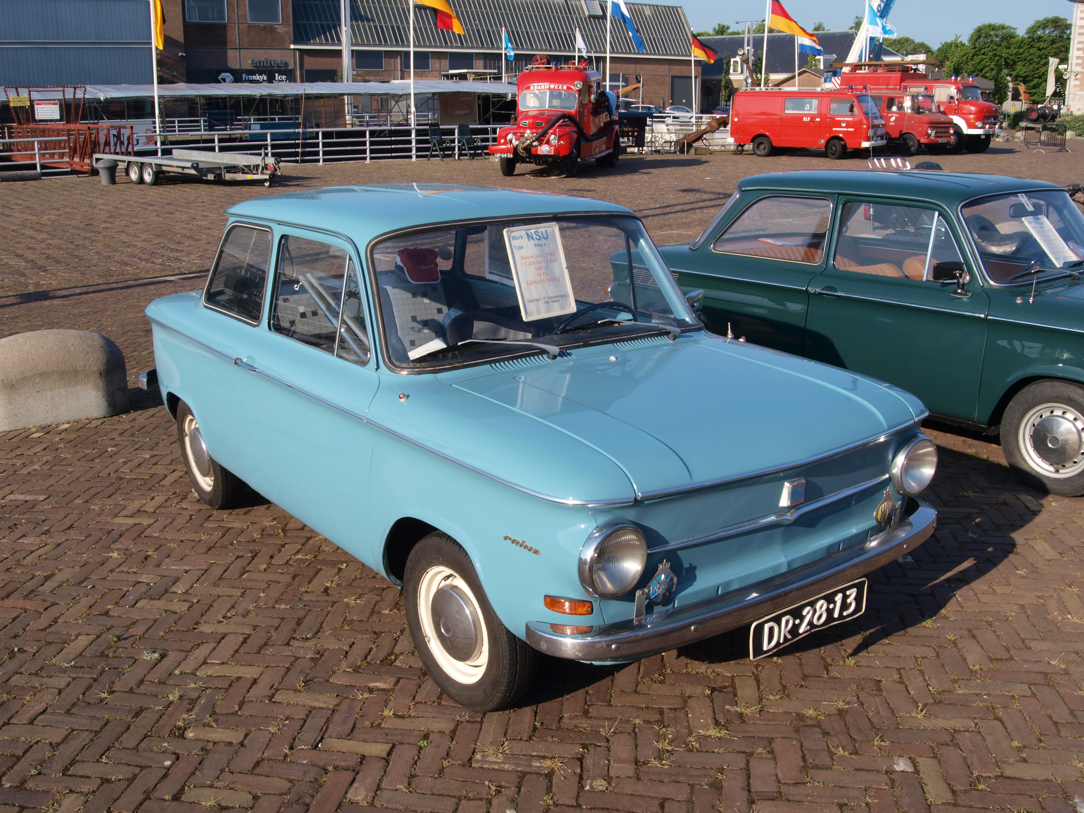 Photographed at Den Helder, The Netherlands. OLYMPUS DIGITAL CAMERA